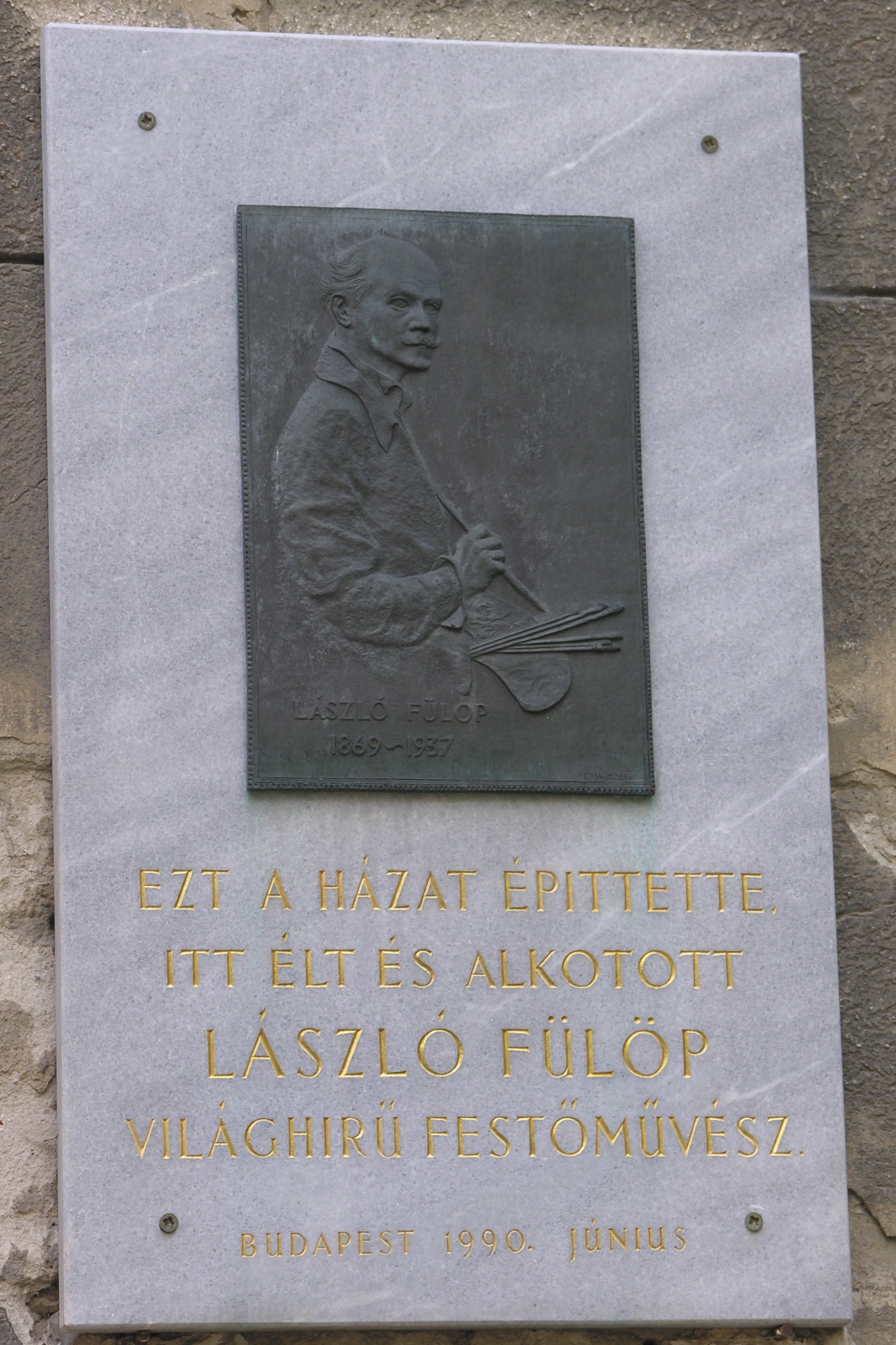 Commemorative plaque of Elek László Fülöp, Budapest District XIV, Zichy Géza Street No 10